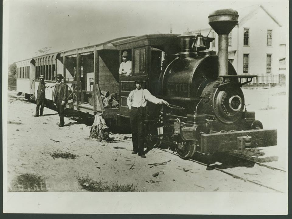 Picture of early locomotive on Tampa Street Railway